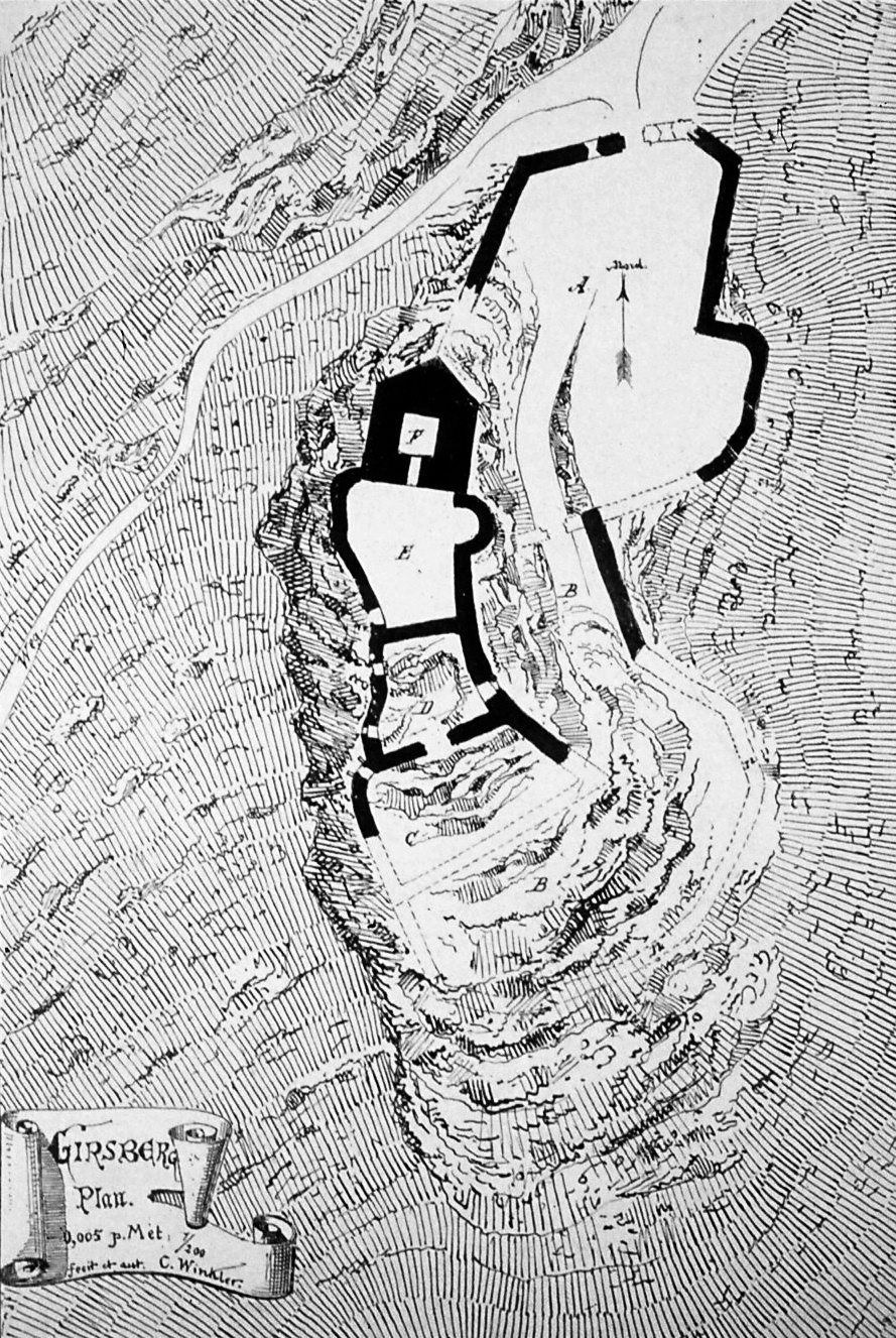 Floorplan of the château du Girsberg